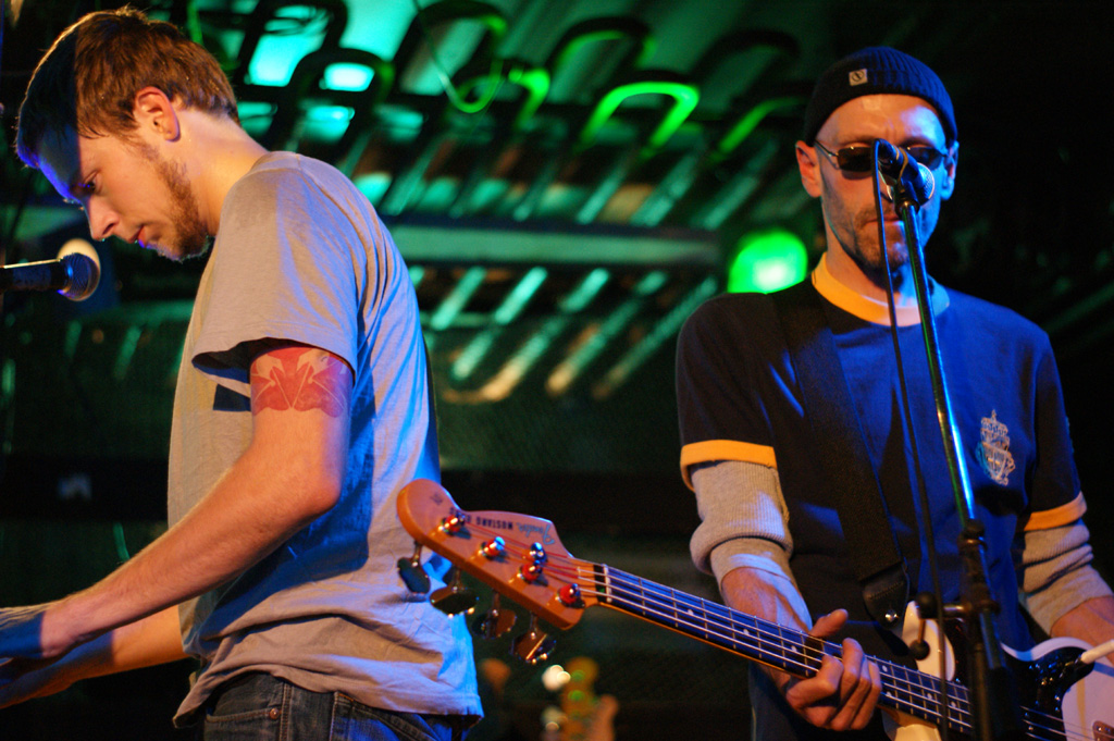 For Against performing at the MS Stubnitz boat in Amsterdam.